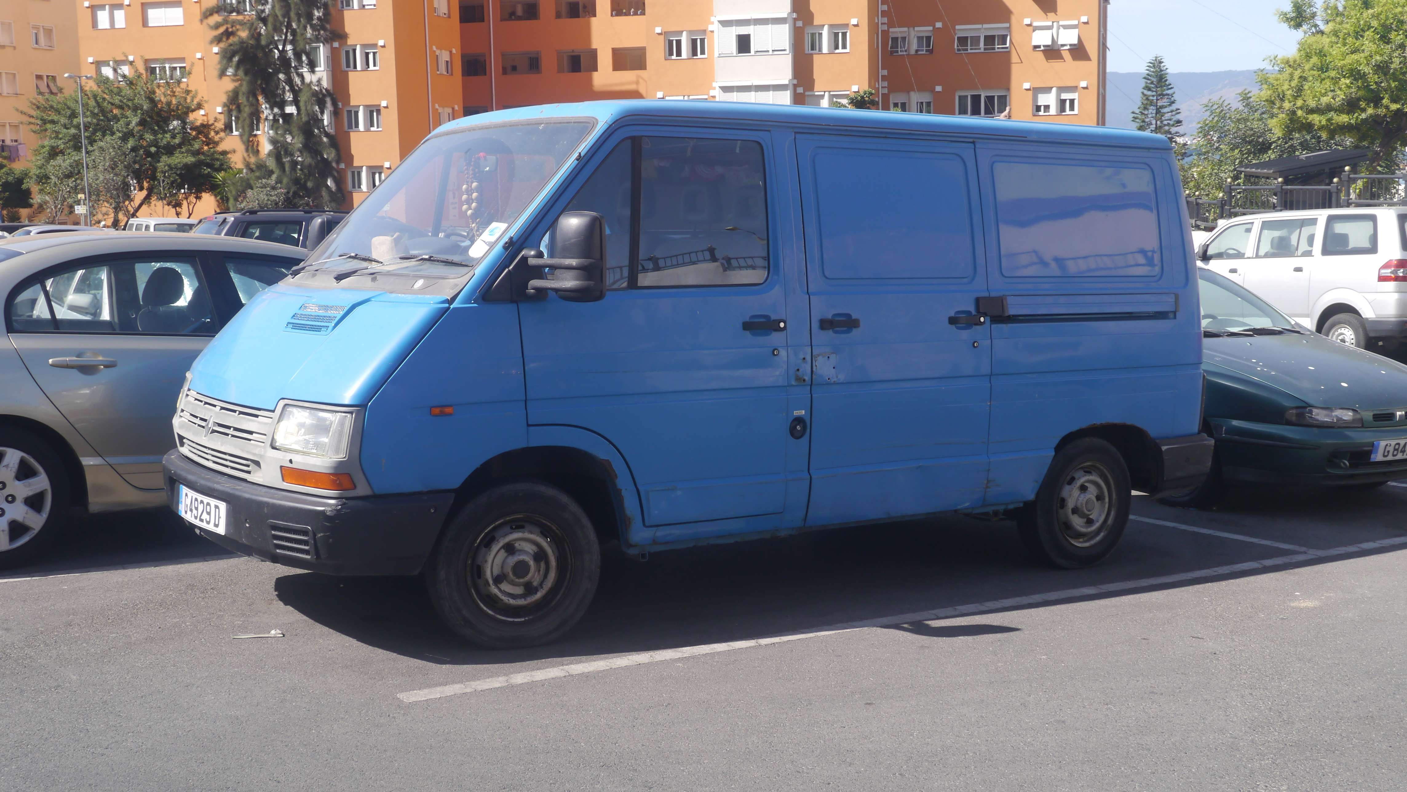 Gibralta, (UK Territory), Spain.